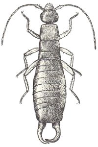 A drawing of the Maritime or Seaside earwig, Anisolabis maritima, from Australia's Commonwealth Scientific and Industrial Research Organisation.